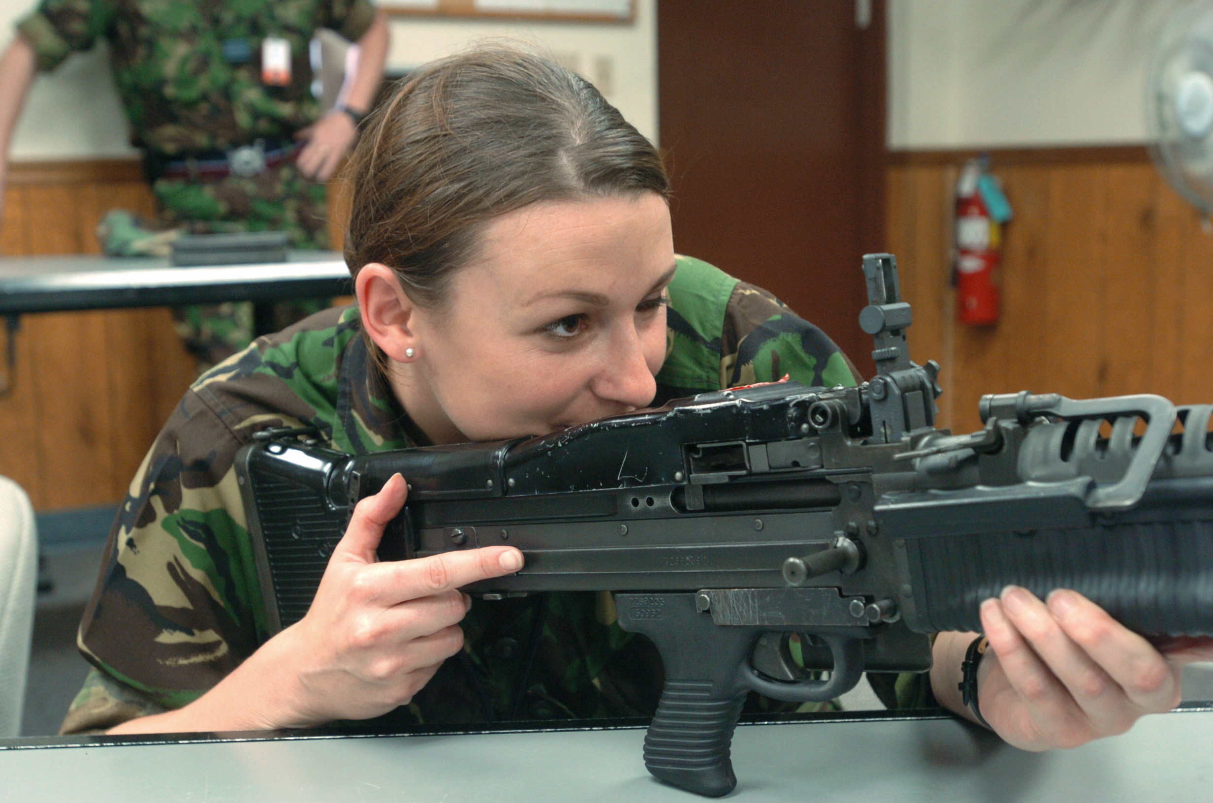 Squadron Leader (Sqn Ldr) Tori Thomas of the British Royal Air Force (RAF) handles an M60 7.62 mm Machine Gun during a demonstration at the Combat Arms Training and Maintenance (CAT) facility, Shaw Air Force Base (AFB), South Carolina (SC). RAF personnel are at Shaw participating in Combined Joint Task Force Exercise (CJTFEX) 04-2. (Released to Public)